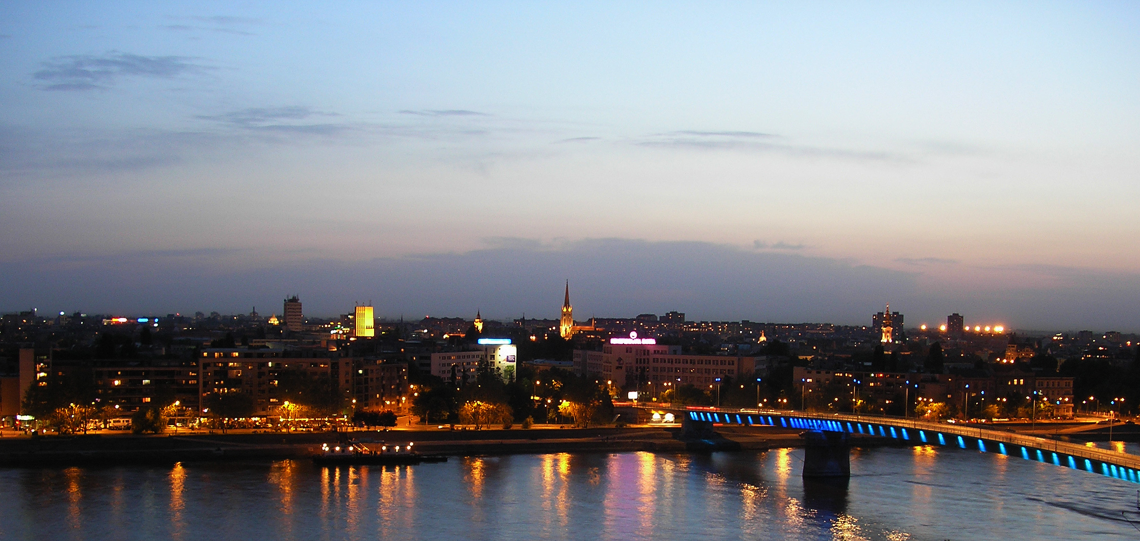 Panoramic view of Novi Sad from Petrovaradin fortress.